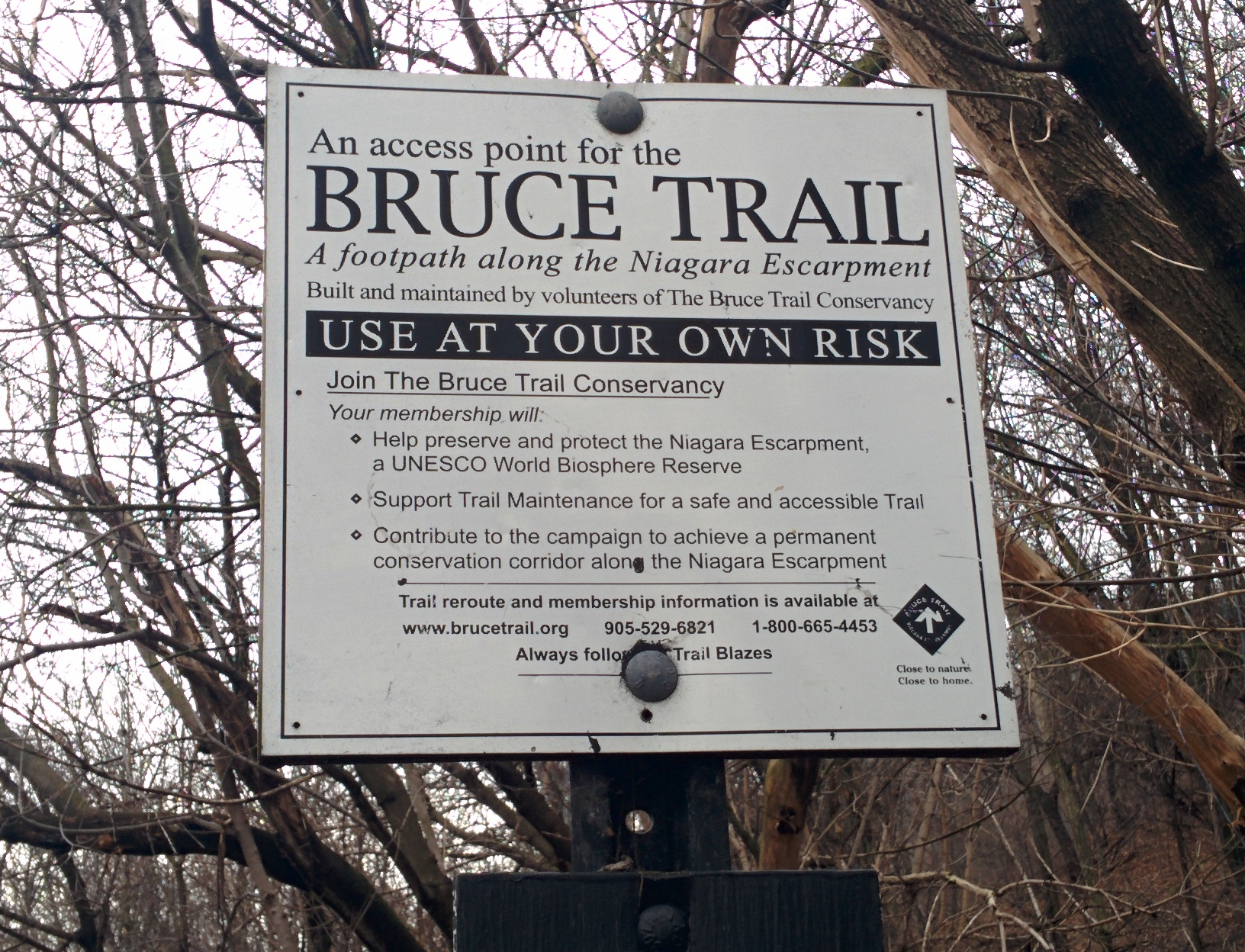 Signage indicating an entry point for the Bruce Trail. Picture taken in Hamilton, Ontario